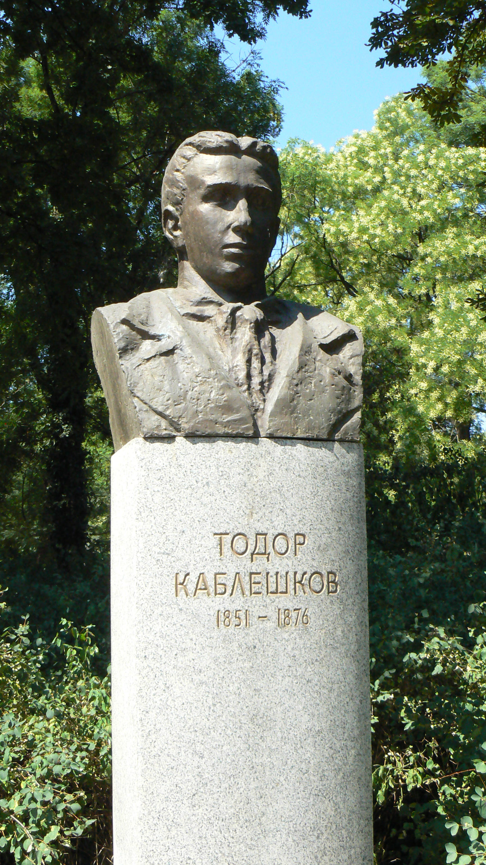 Monument of Bulgarian revolutionist Todor Kableshkov (1851-1876) in Borisova Garden, Sofia